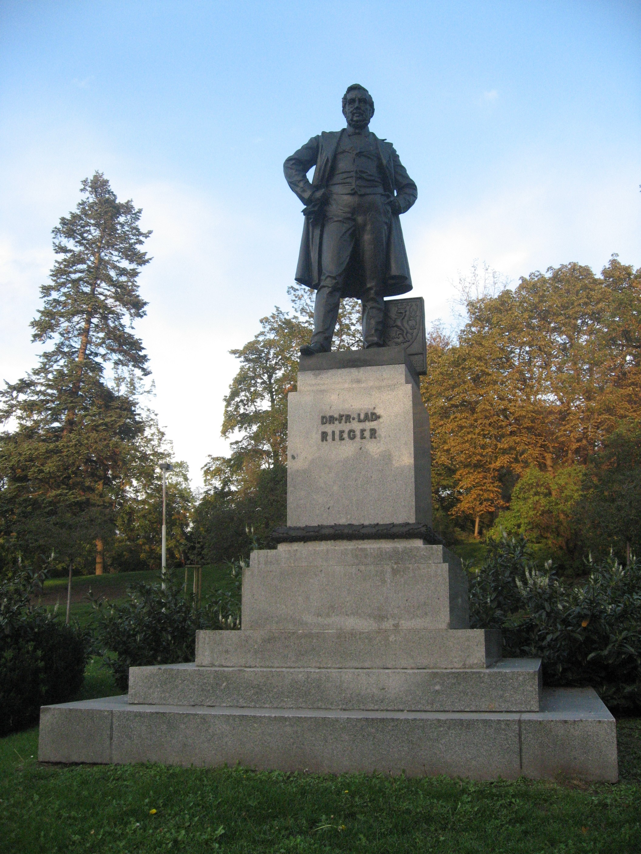 F.L. Rieger monument in Rieger-Park, Prague